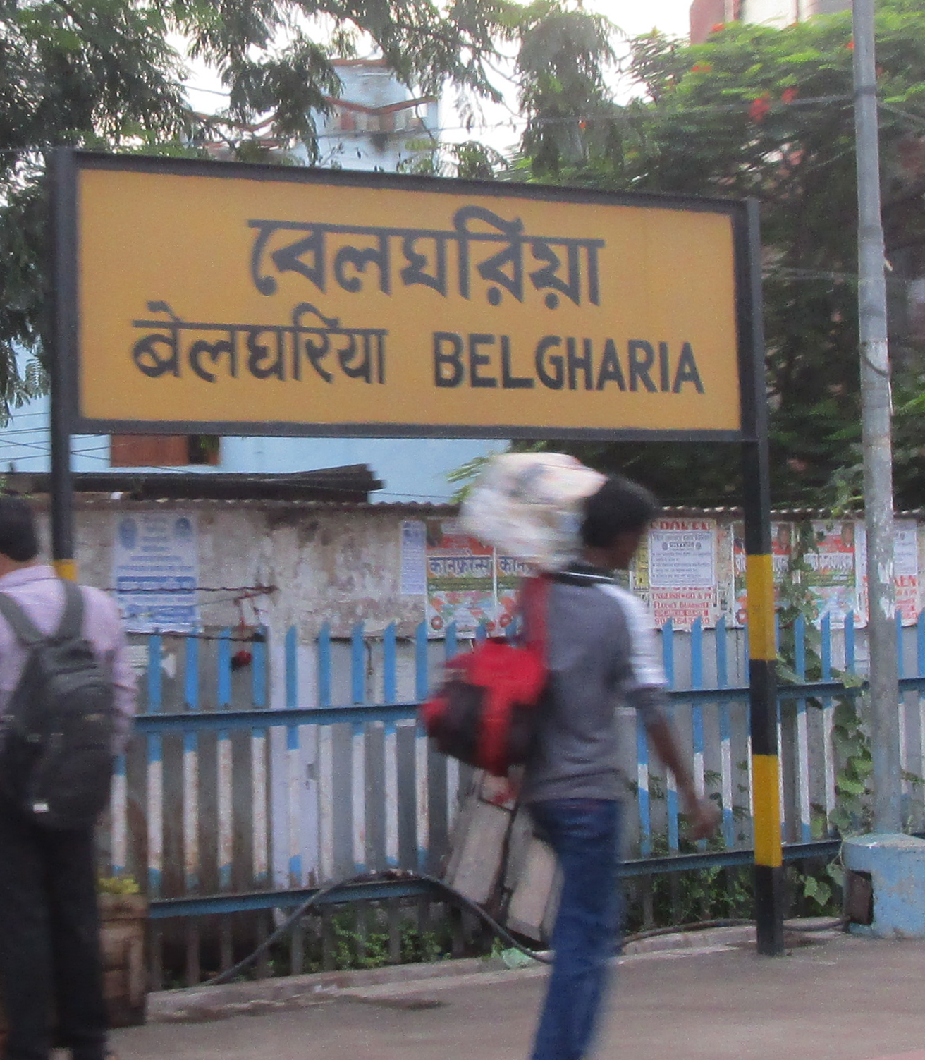 Belgharia railway station